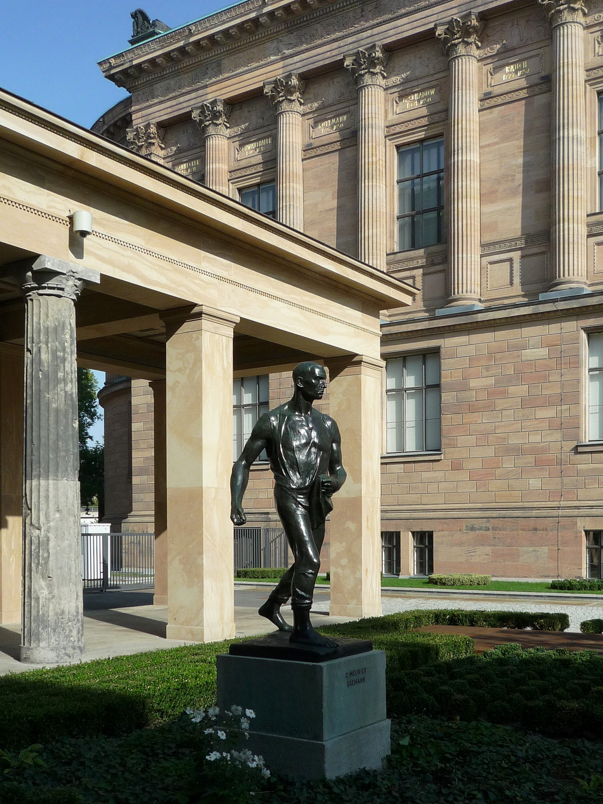 Berlin, Museumsinsel. Colonnades of the court-yard in front of Neues Museum and Alte Nationalgalerie. Partial view with sculpture of Constantin Meunier ("The Sower", 1890).